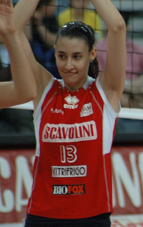 Brazilian volleyball player Sheilla Castro